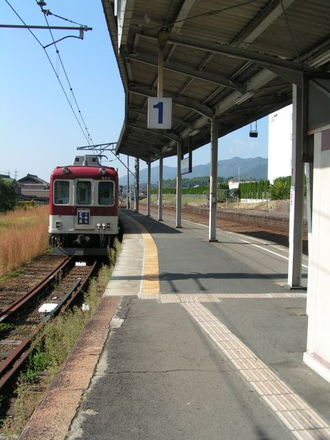 Iga-Ueno Station